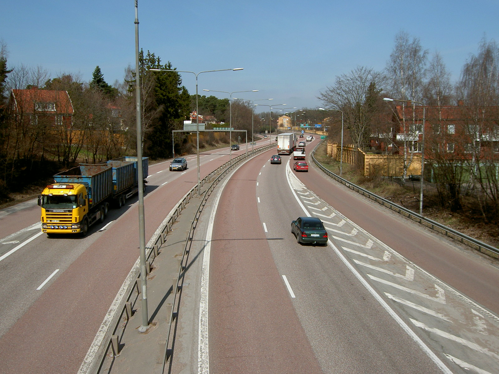 Looking towards Junction 133 of the E18 motorway through Västerås, Sweden. Junction 134 and 133 are very close to eachother in the middle of an S-bend, wherefore speedlimits were recently decreased for safety reasons to 70 km/hr (previously 90 km/hr).